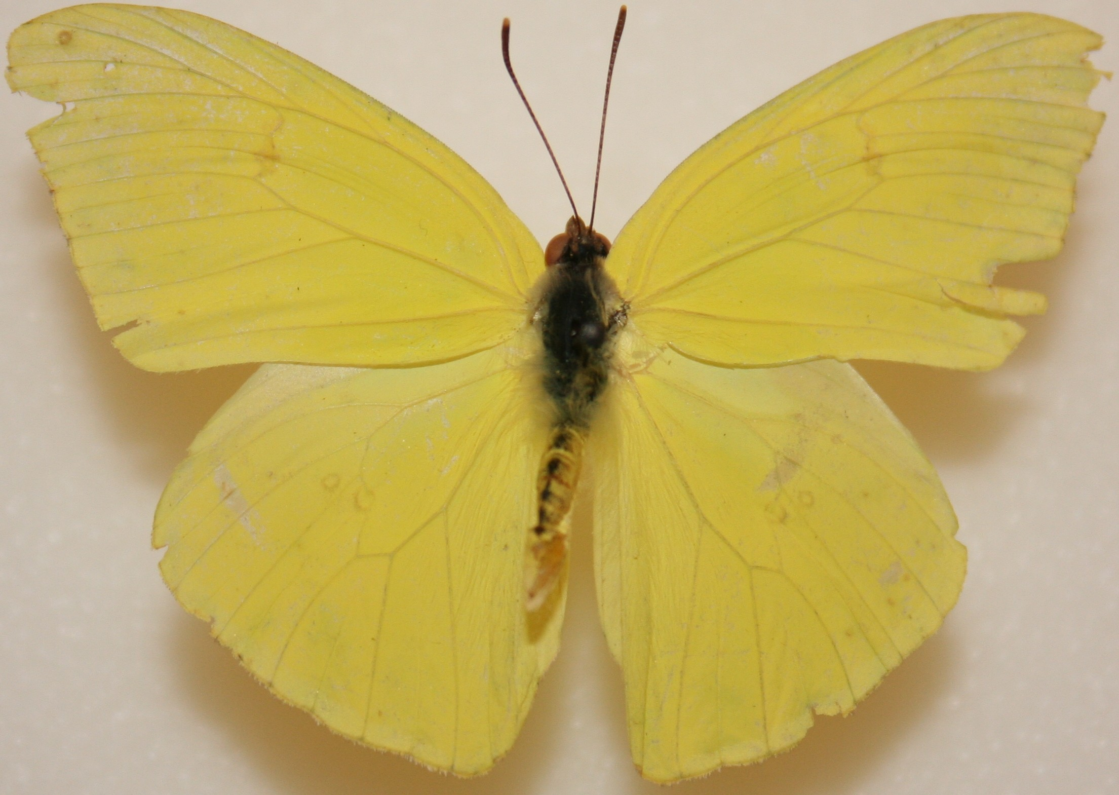 Male Cloudless Sulphur, Phoebis sennae